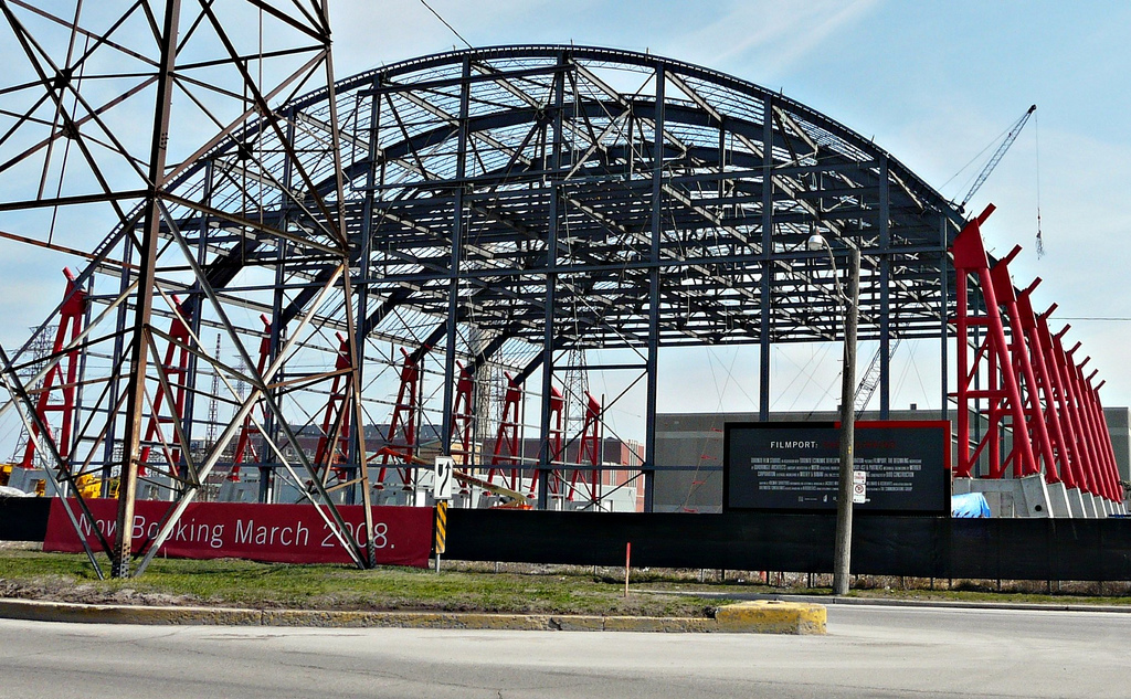 Image of Filmport Studio under construction. Filmport's Mega-Stage